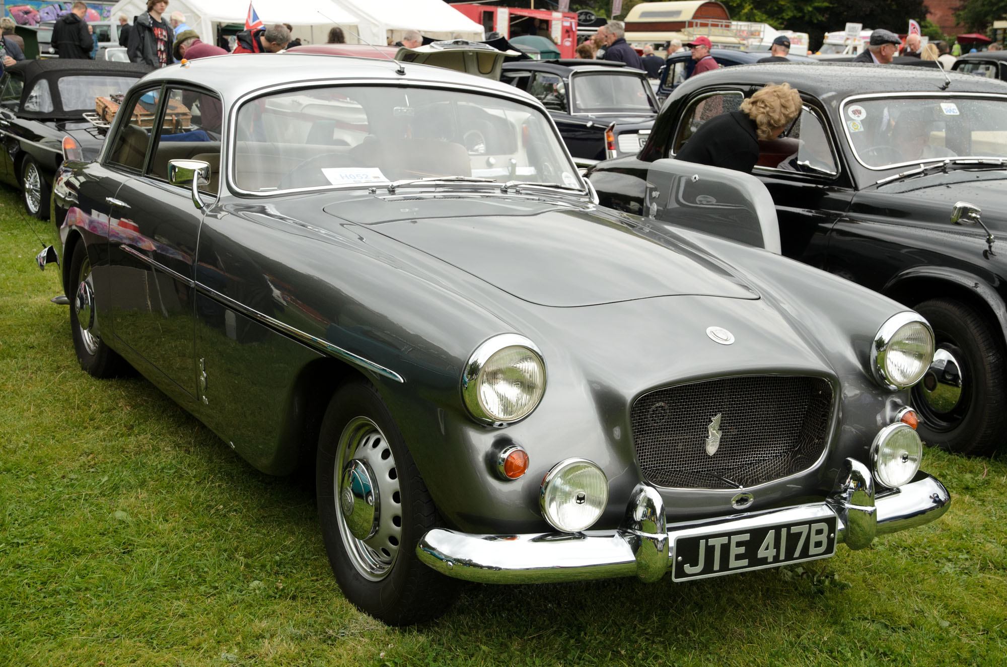 Hebden Bridge Vintage Weekend 01/08/2015